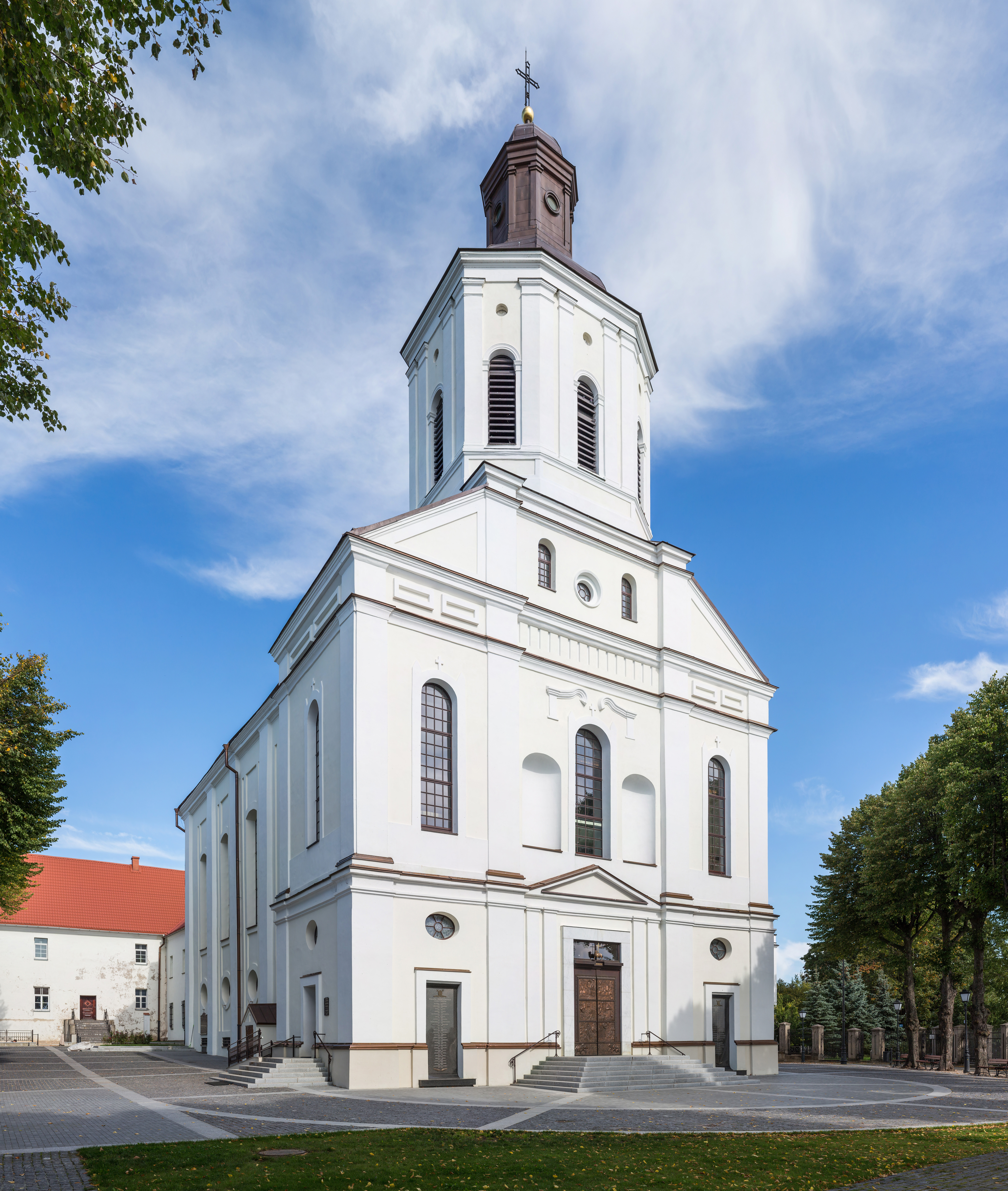 The exterior of Telšiai Cathedral, Telšiai, Lithuania.